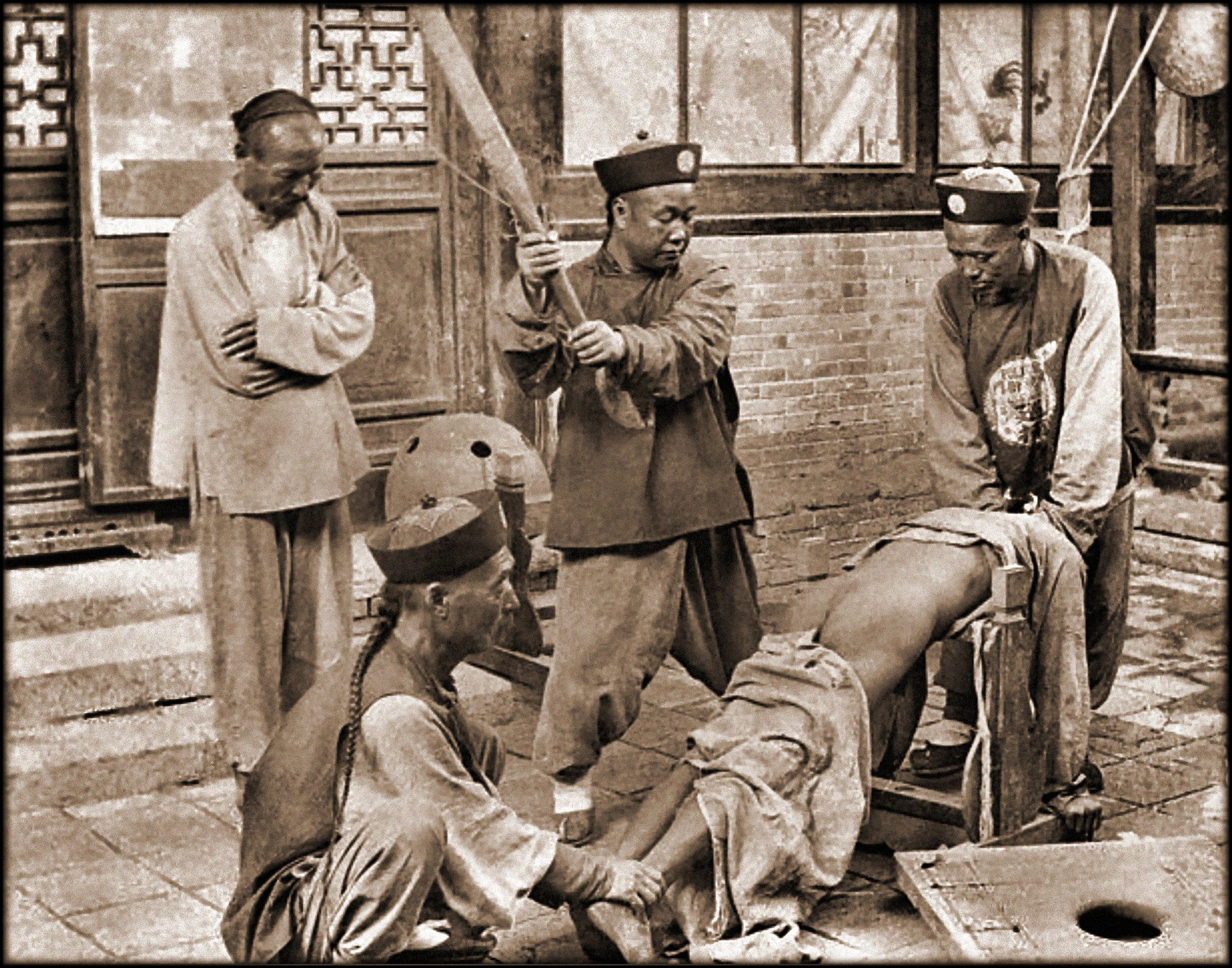 Entitled Chinese punishment, whipping a lawbreaker [c1900] Attribution Unknown [RESTORED]. The photograph was cleaned of defects, and had contrast and tone adjusted. "But first, ...thirty stokes with the big paddle!!!" is often heard on Chinese period dramas, ostensibly depicting how the Qing courts of yesteryear meted out punishment, or how judges "encourage" criminal confessions. Bastinado (also Bastinade, Bastinada - an alteration of the Spanish 'Baston' meaning 'stick') is a description of the whipping, flogging, paddling, or caning of a person's feet or legs; but can also include the buttocks; while the accused are held supine on the ground or face down across a punishment rack. Used for centuries around the world, this too, was one of the many corporal punishment techniques that the Qing routinely dealt out in order to maintain civil obedience. The Bastinadoist (ie the one who delivers the repeated blows) is generally someone who is specially trained to inflict slow but grinding punishment, even up to the point of death after many hours of torturous paddling. The technique was readily described and amply pictured in various prints that detailed Chinese culture to Europeans.